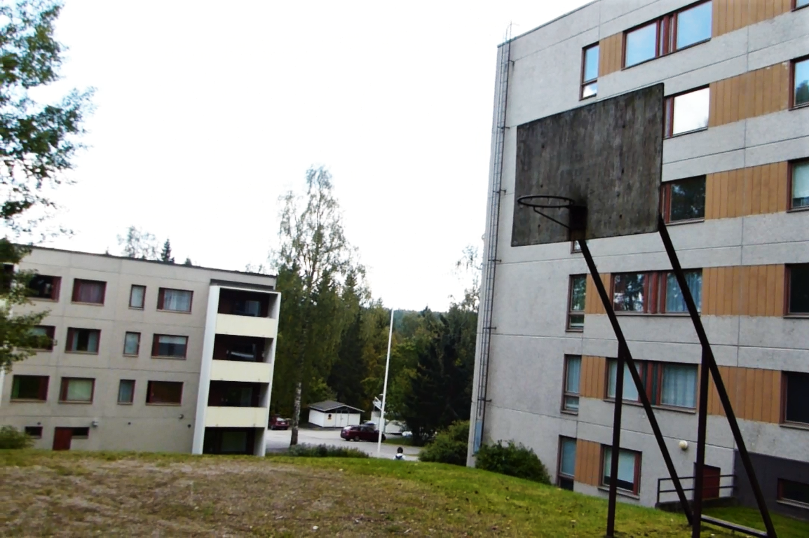 Pupuhuhta, Jyväskylä, Finland